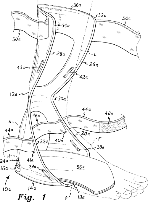 Modular ankle-foot orthosis